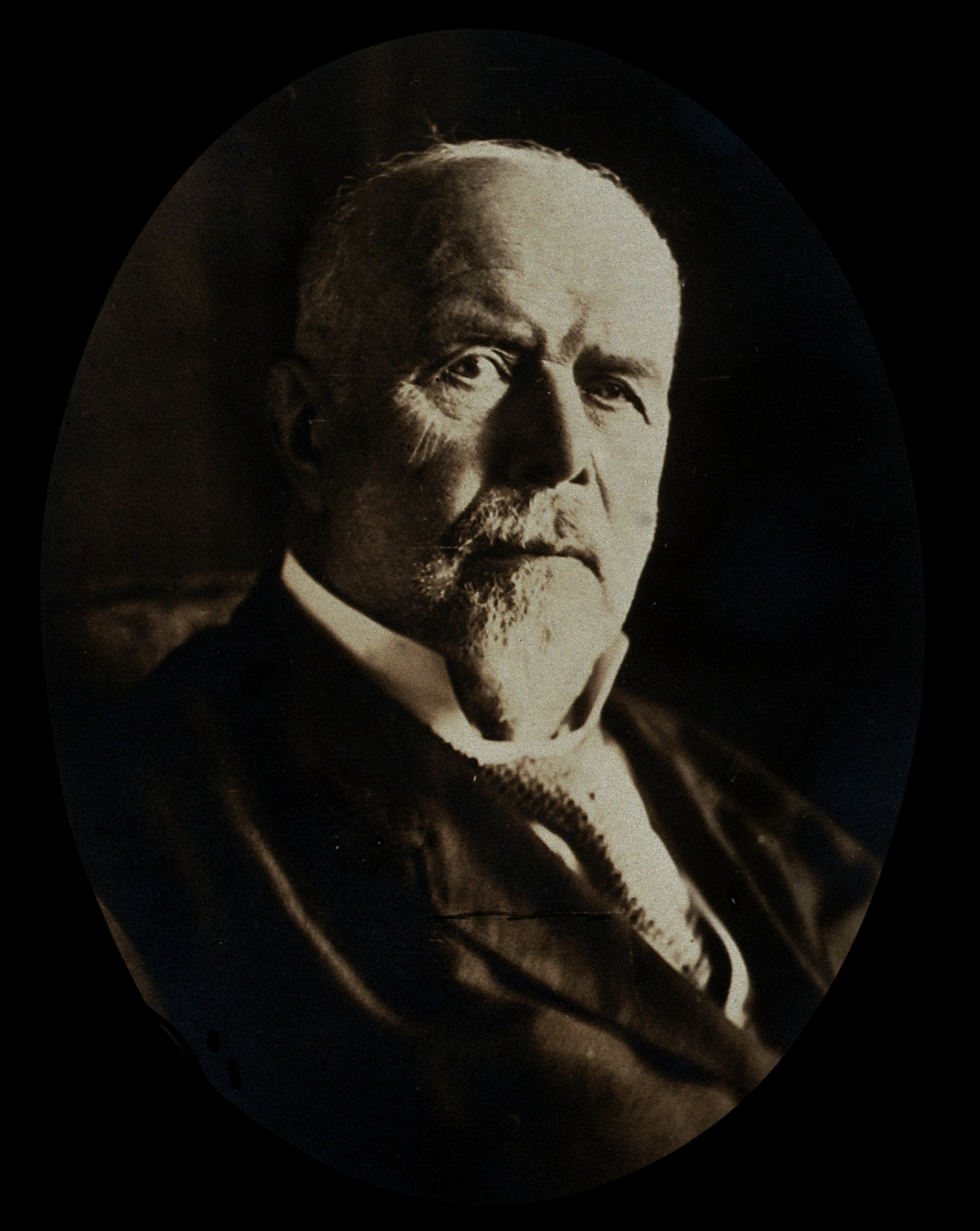 August Eduard Martin. Photograph, 1927. Iconographic Collections Keywords: portrait photographs